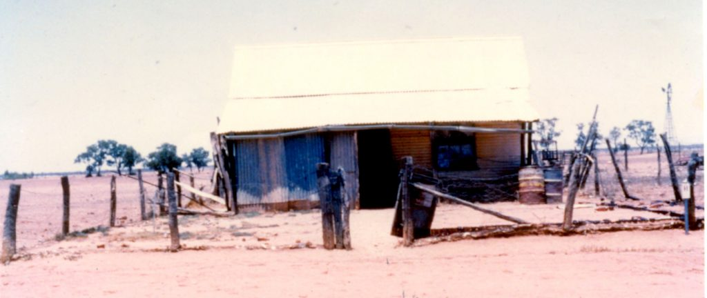 This is the very first Eromanga police residence which was built in 1894 so the police officer could bring his wife out to live with him. This photograph was taken around 1960. Eromanga Police Station was first opened on the 26 September 1891 in a two roomed cottage rented at a cost of five shillings per week, with Senior Constable Manuell in charge. At this time the township consisted of one large store owned by Mr W Paterson, two first class ‘public houses’ built of brick, and a couple of ‘humpys’. The resident population was about 20 and there was always a number of men from the opal mines and stations ‘knocking down their cheques’ at Eromanga’s public houses. Senior Constable Manuell remained in charge of Eromanga until he was instructed to close this station on the 31 December 1891, and to proceed to Thargomindah. The station reopened in 1893. It is still a single officer station and is staffed by a Senior Constable. Image No. PM1600e Courtesy of the Queensland Police Museum